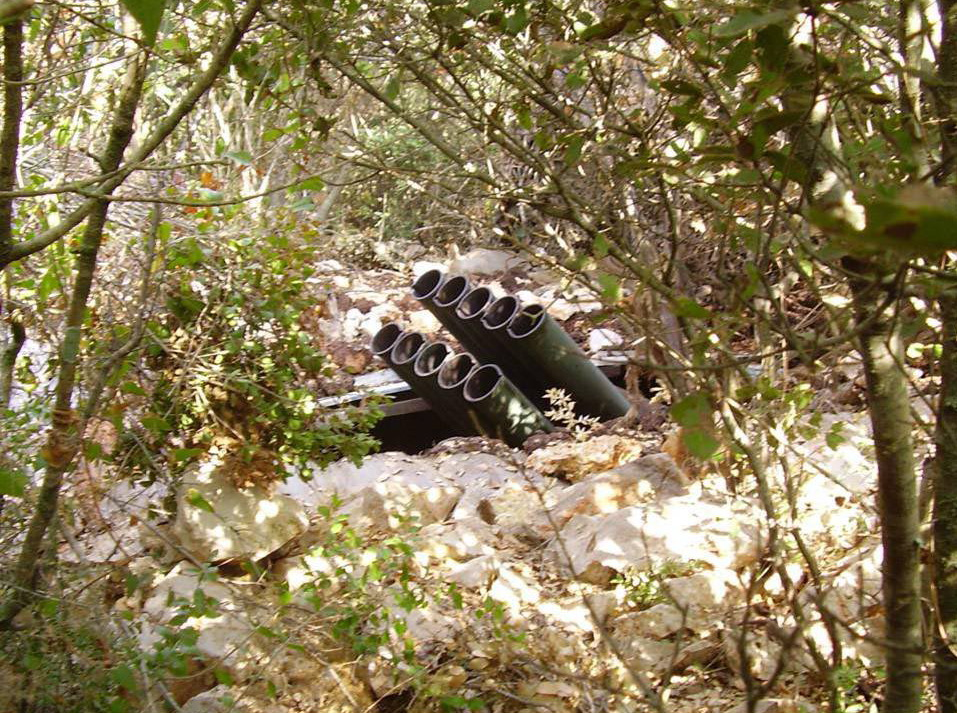 August 26, 2006 IDF forces operating in the Western Sector of southern Lebanon found a stockpile of weaponry, including anti-tank missiles and launchers. Pictured: A rocket launcher hidden underground